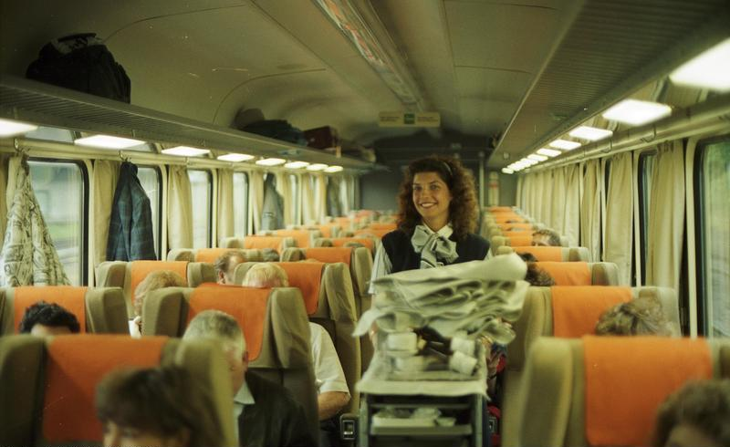 Juni 1988 Lufthansa Airport Express